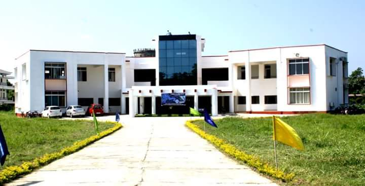 School of Management Sciences Building,Tezpur University